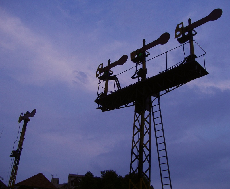 Mechanical railway signal at Surabaya Kota train station, IndonesiaBahasa Indonesia: Sinyal (mekanik) keluar T Stasiun Surabaya Kota